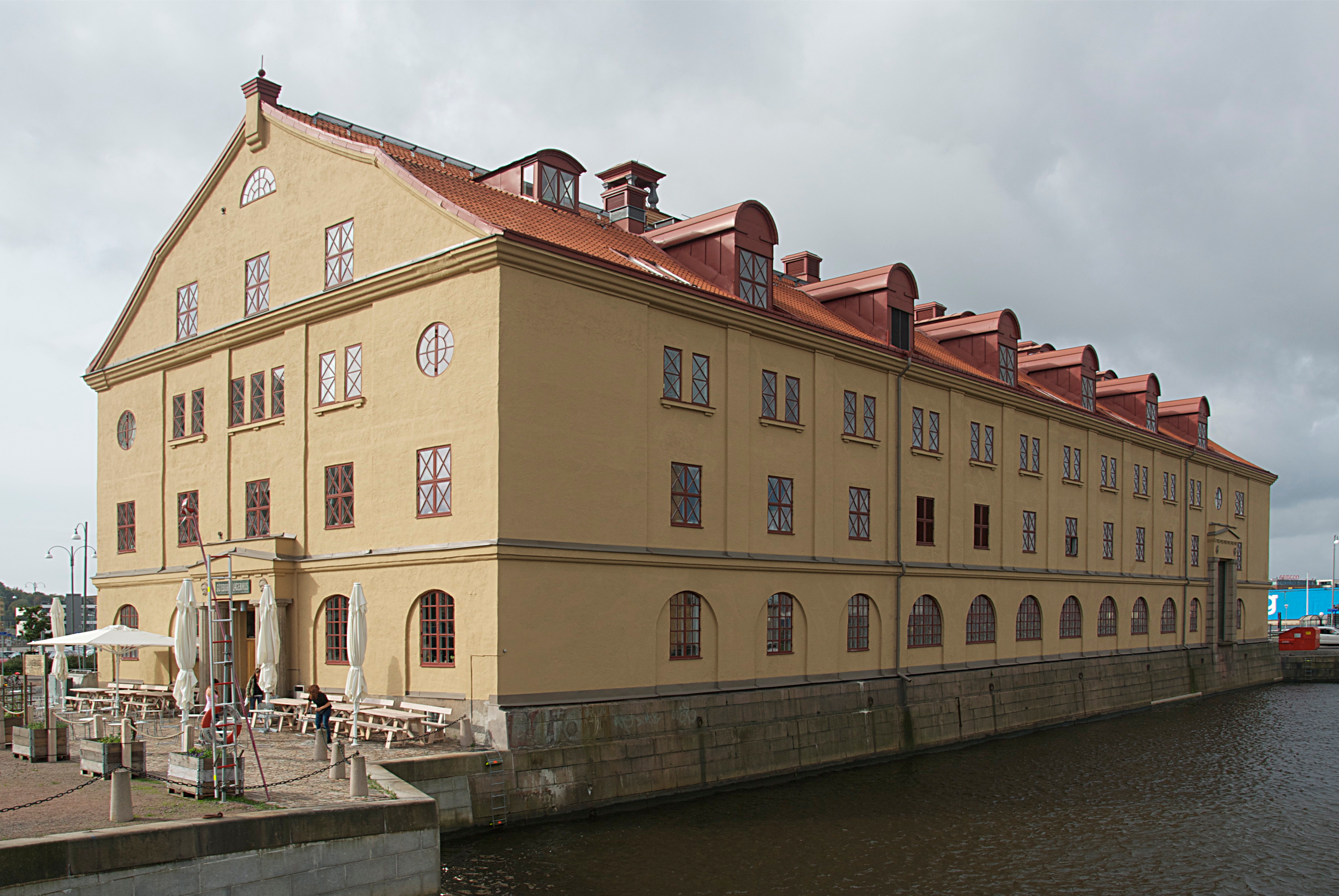 Frilagerhuset/Göteborgs lagerhus